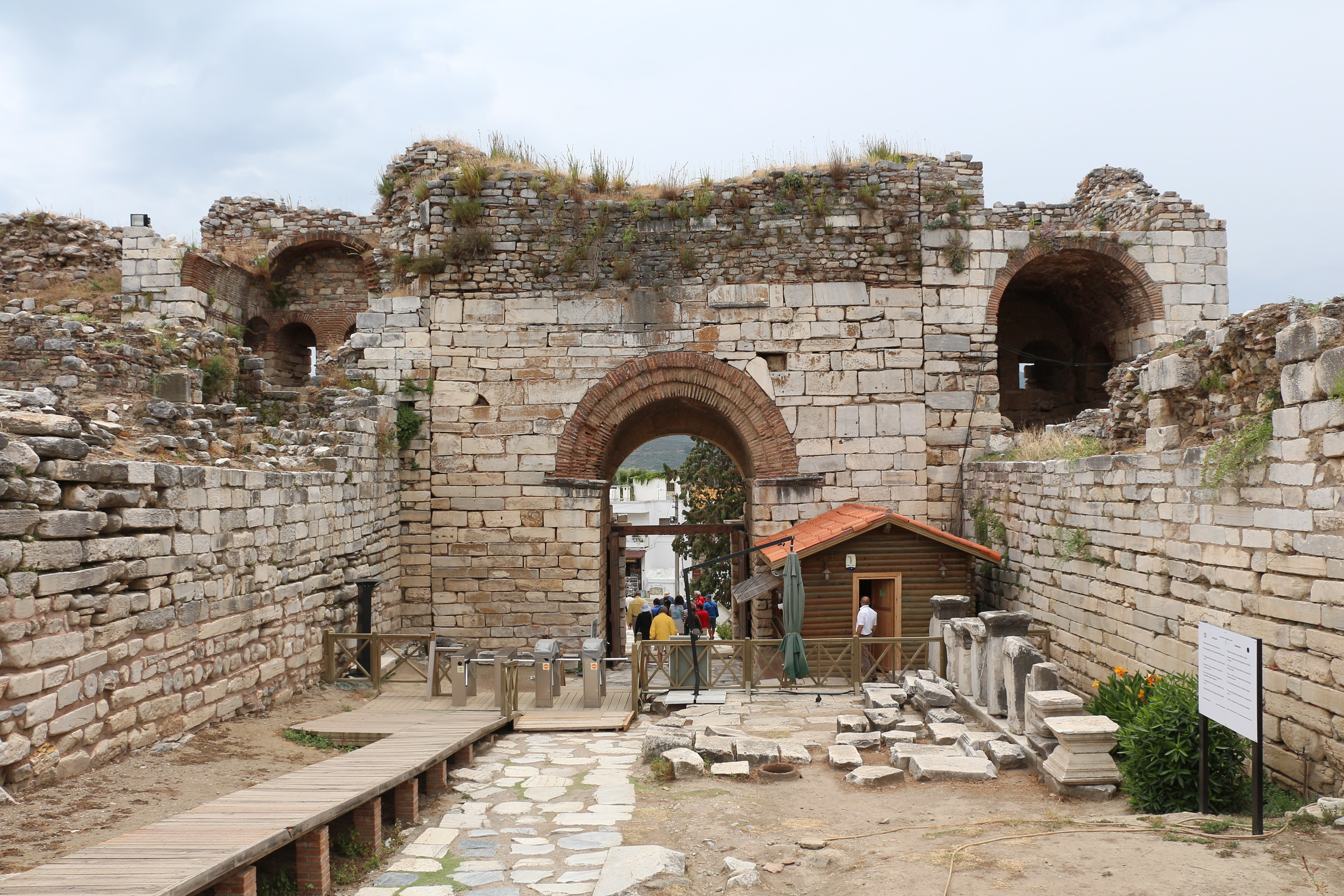 Persecution Gate leading to the Basilica of St. John, Ephesus, Turkey